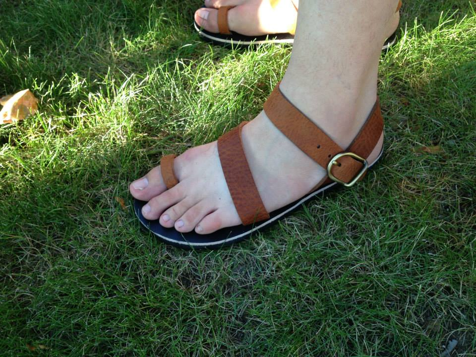 A pair of handmade, men's, leather toe loop sandals.